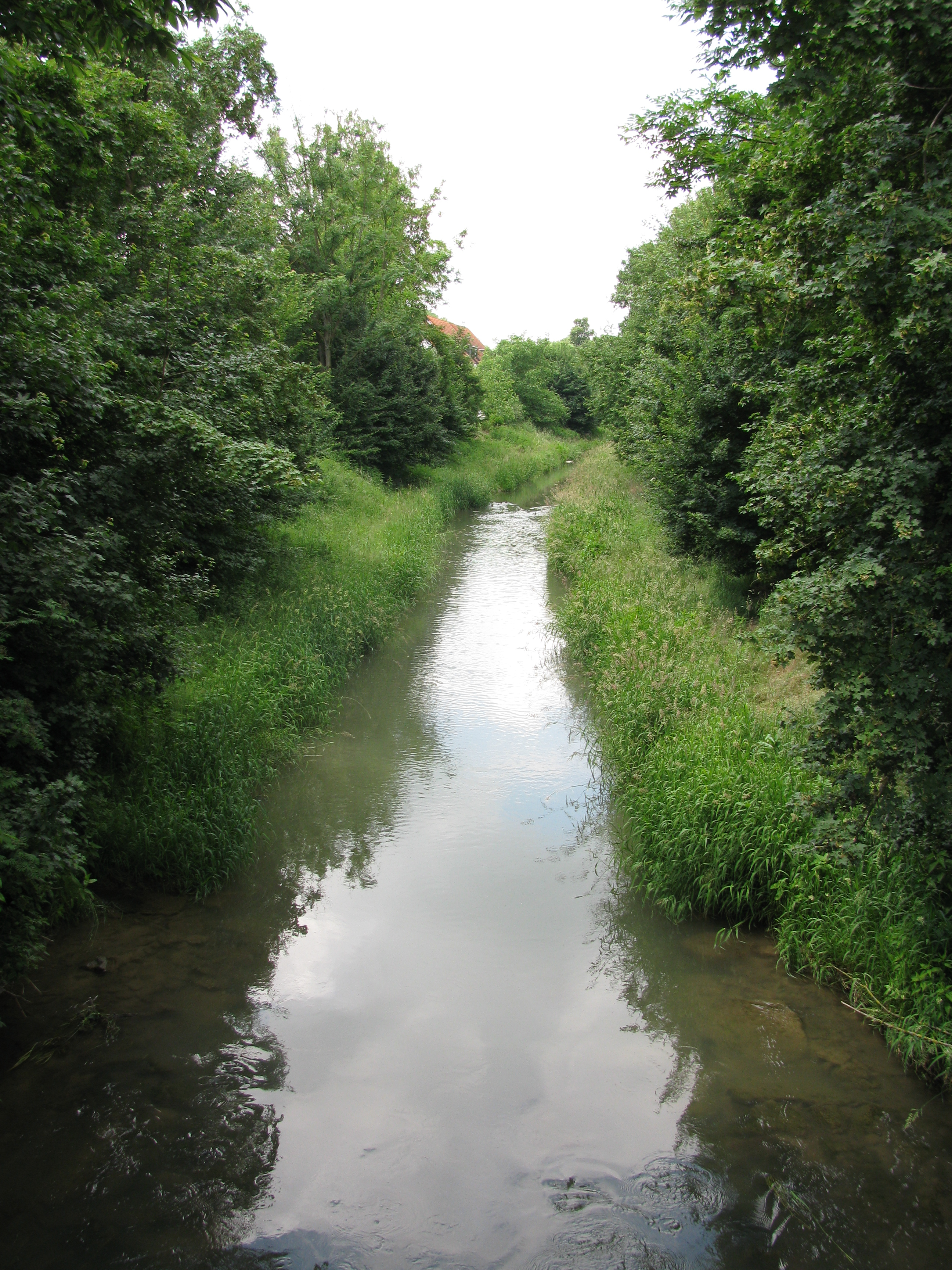 Ipfbach near St Florian, Upper Austria